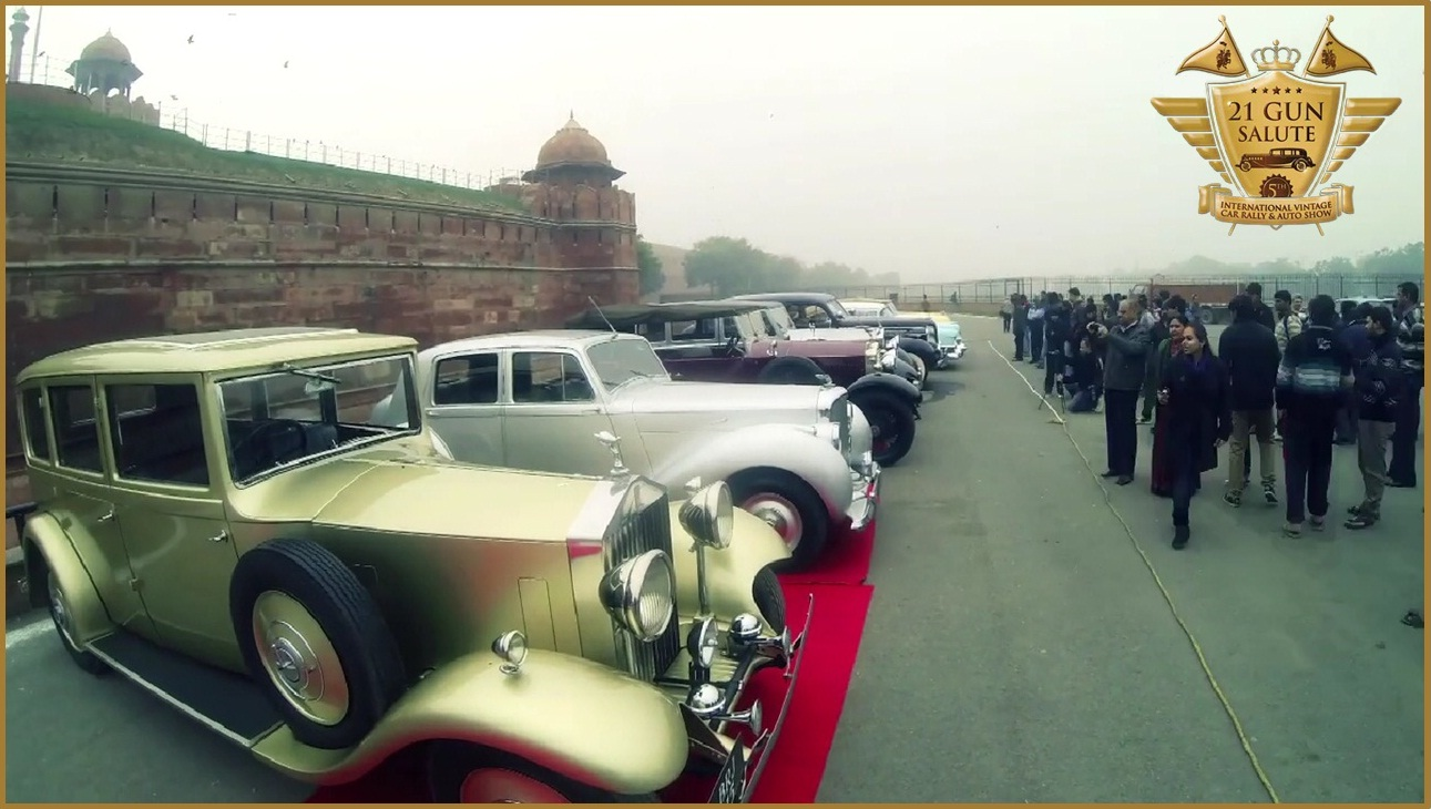 Vintage Car Rally Delhi organized by 21 Gun Salute Rally has international vintage cars, royal families from across the country, great food, amazing music and of course lots and lots of vintage cars to make this event difficult to forget.